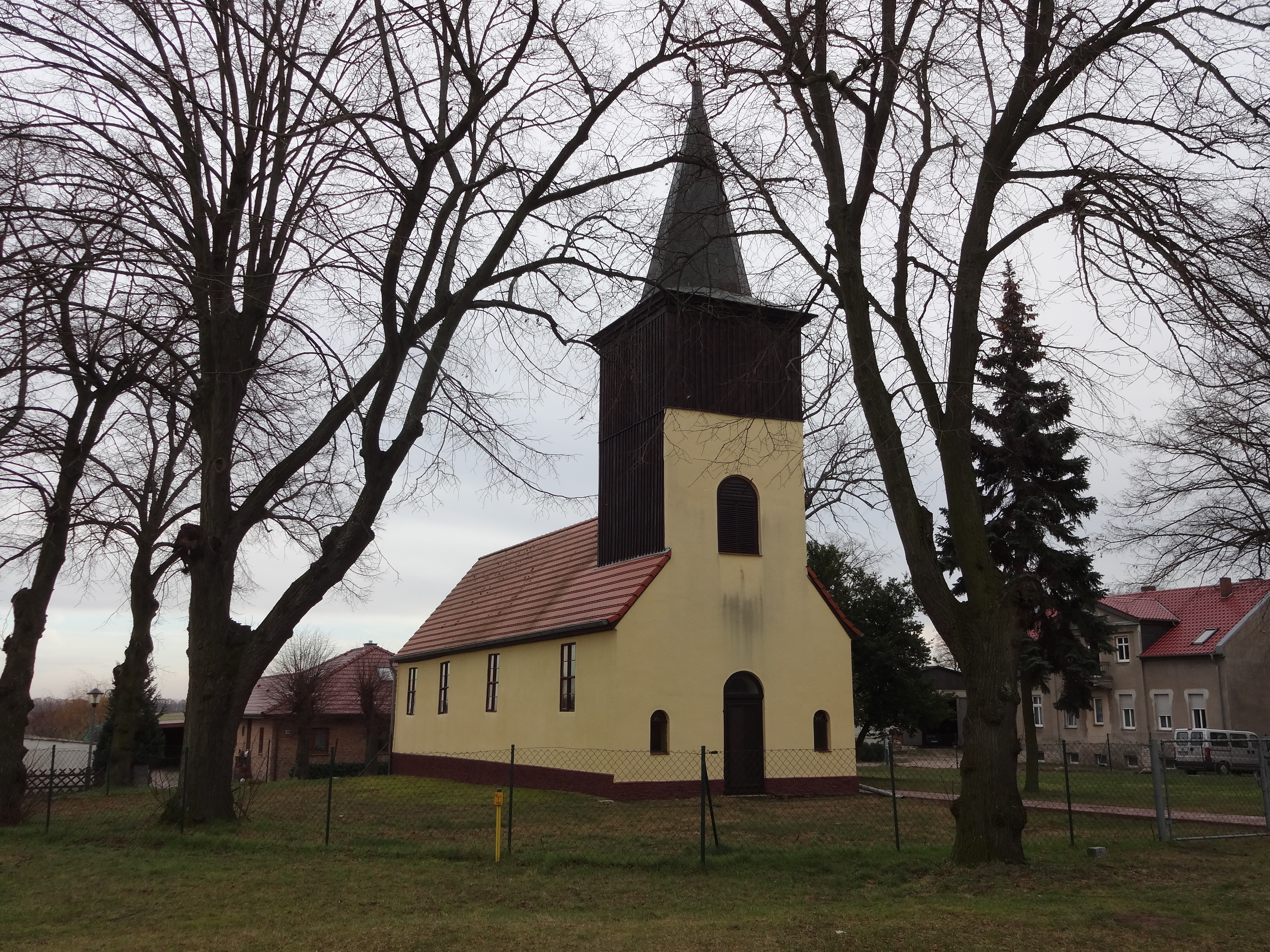 West-north-western view of church in Warsow, Wiesenaue municipality, Havelland district, Brandenburg state, Germany.